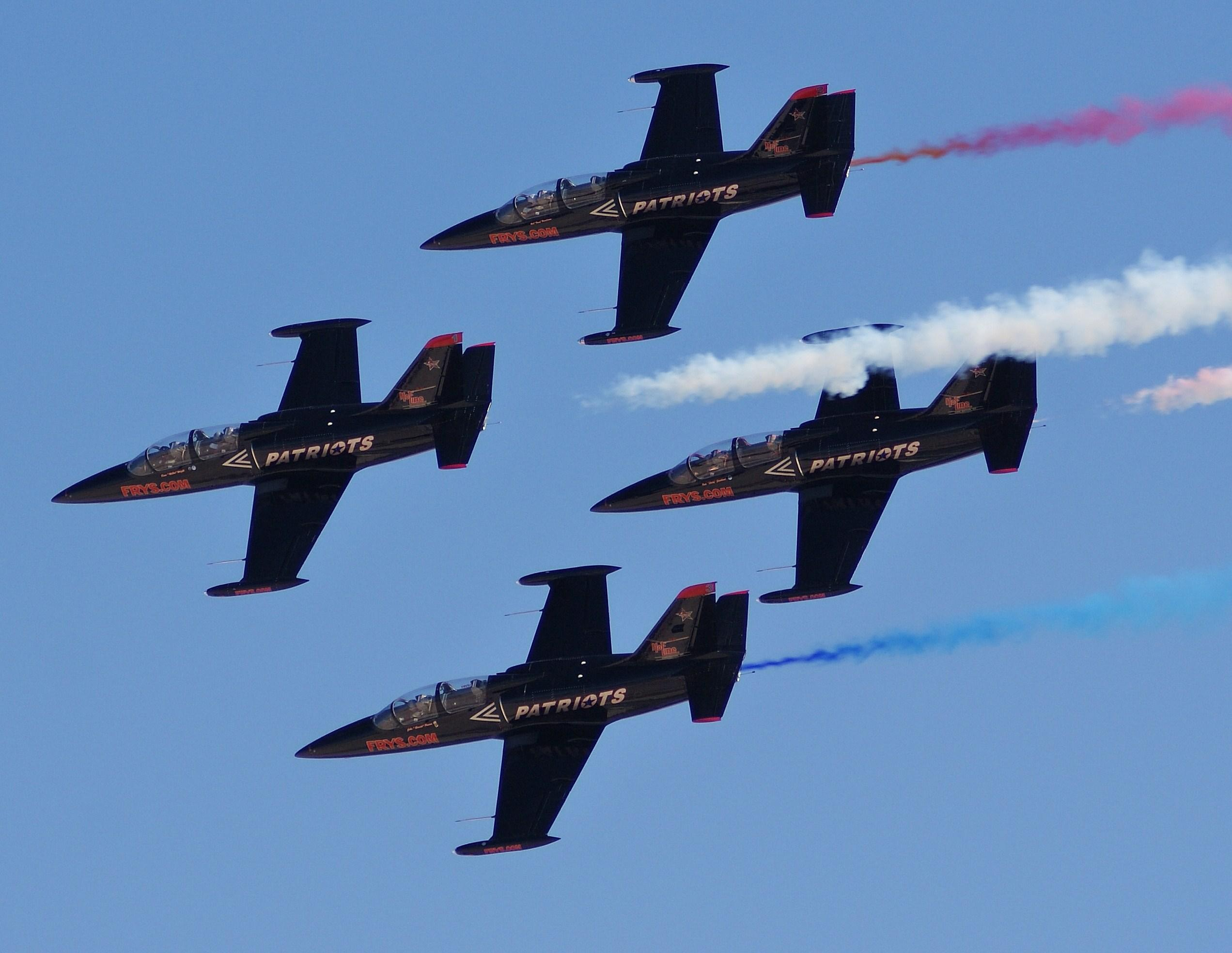 Patriots Jet team performs at the 2009 Aviation Nation at Nellis AFB